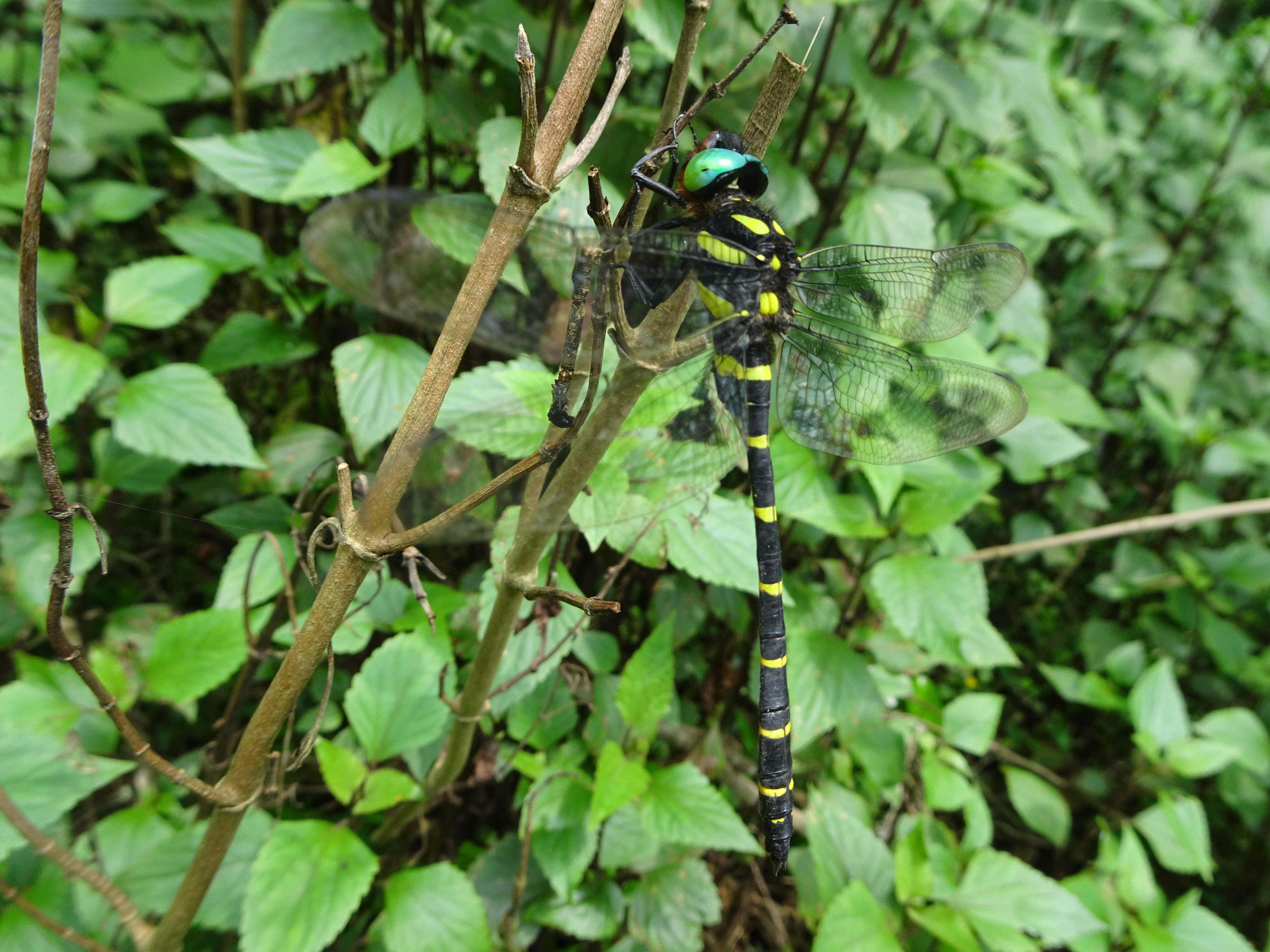 Anotogaster nipalensis taken at Godavari, Lalitpur